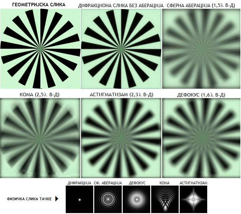 СЛИКА СИМЕНСОВЕ ЗВЕЗДЕ